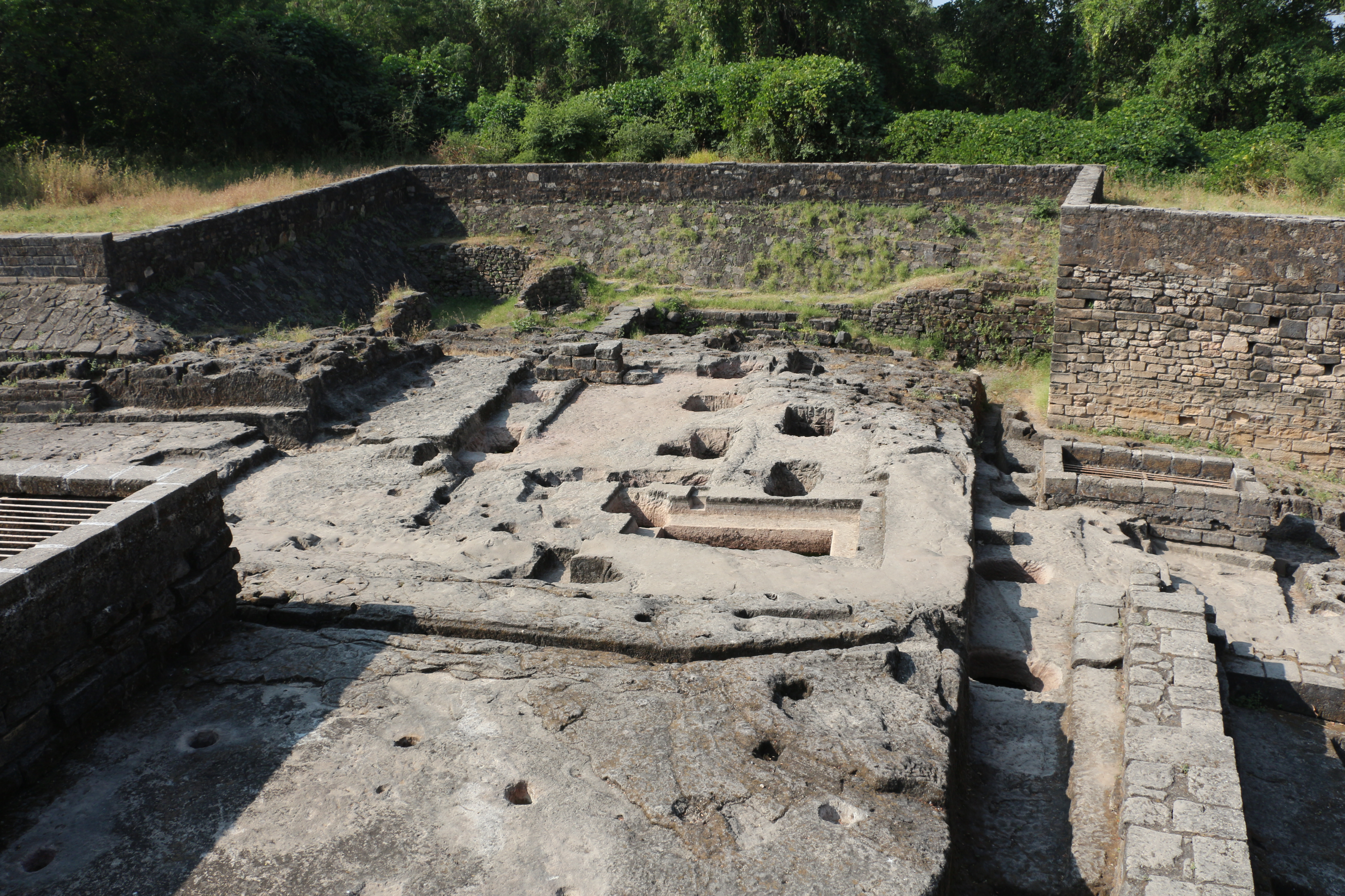 Buddhist caves, Uperkot Fort, Junagadh, India